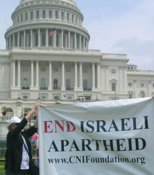 Council for the National Interest banner at End the Occupation of Palestine rally at the U.S. Capitol, June 10, 2007.